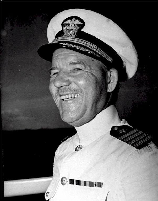 Edward William Hanson (February 12, 1889 – October 18, 1959) was a United States Navy Vice admiral and the 28th Governor of American Samoa from June 26, 1938 to July 30, 1940.